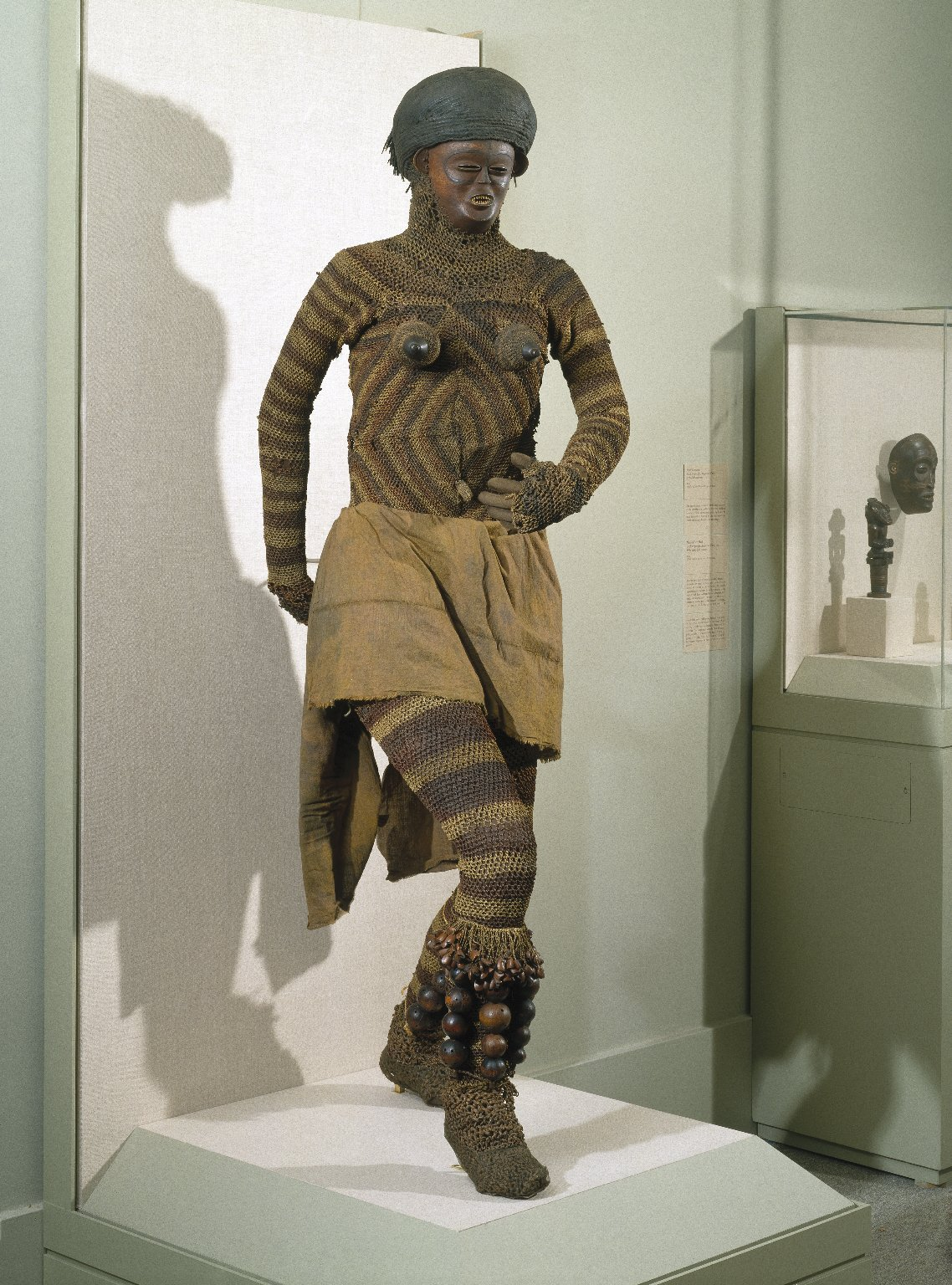 Pair of rattles consisting of many small brown seed pods attached to strings. Some rattles broken. Worn by dancer as part of Pwo dance costume.